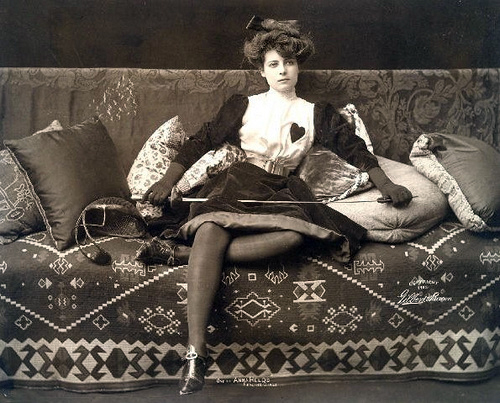 Anna Held